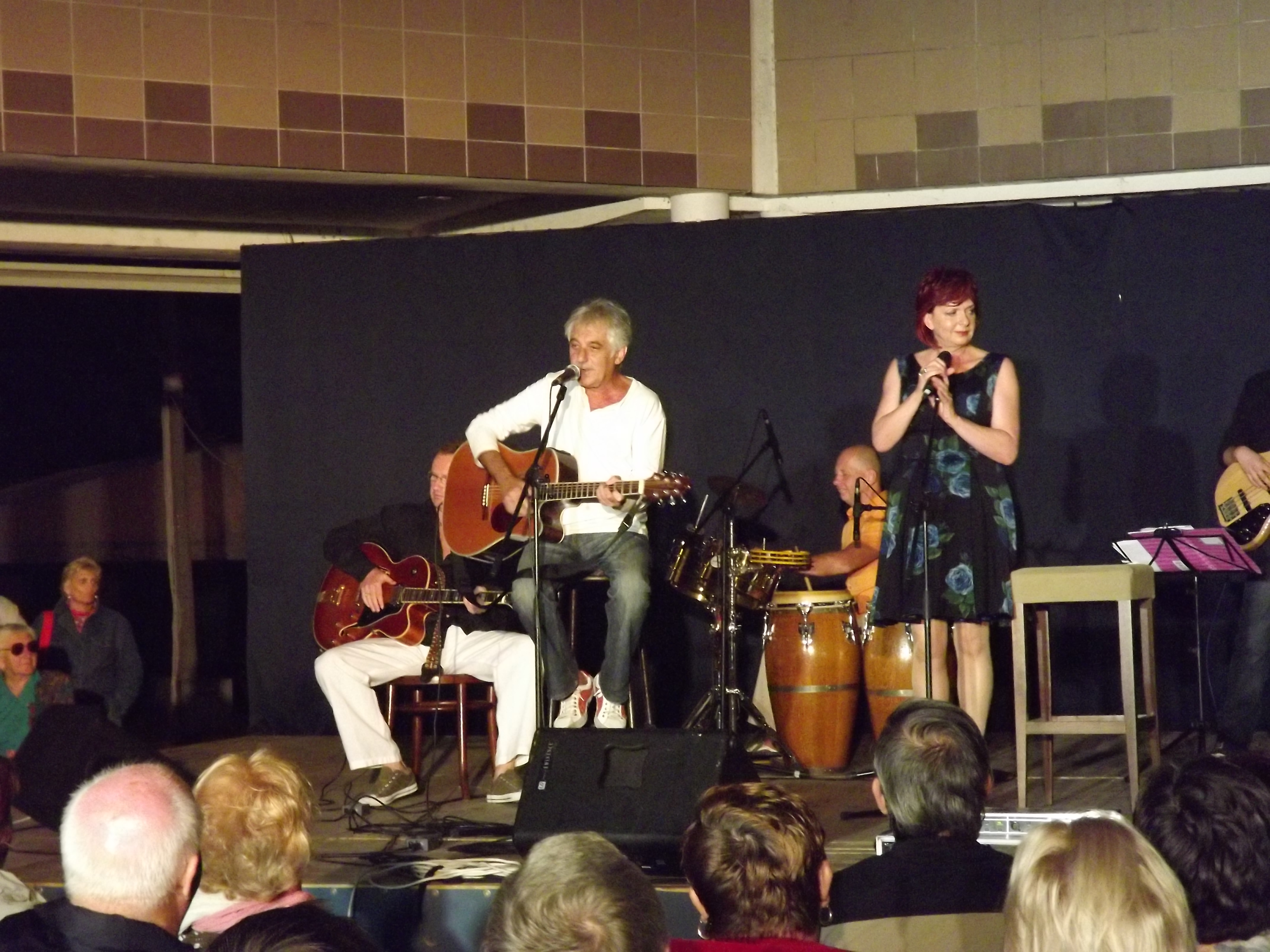 Judit Hernádi and Gábor Heilig at Hévíz in July, 2012